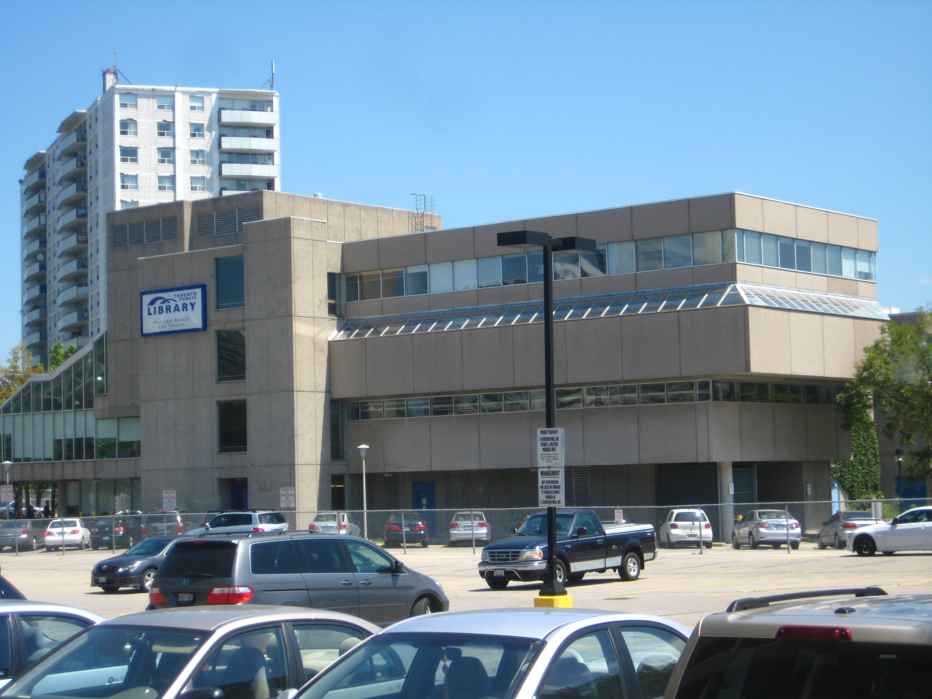 Fairview Toronto Public Library branch